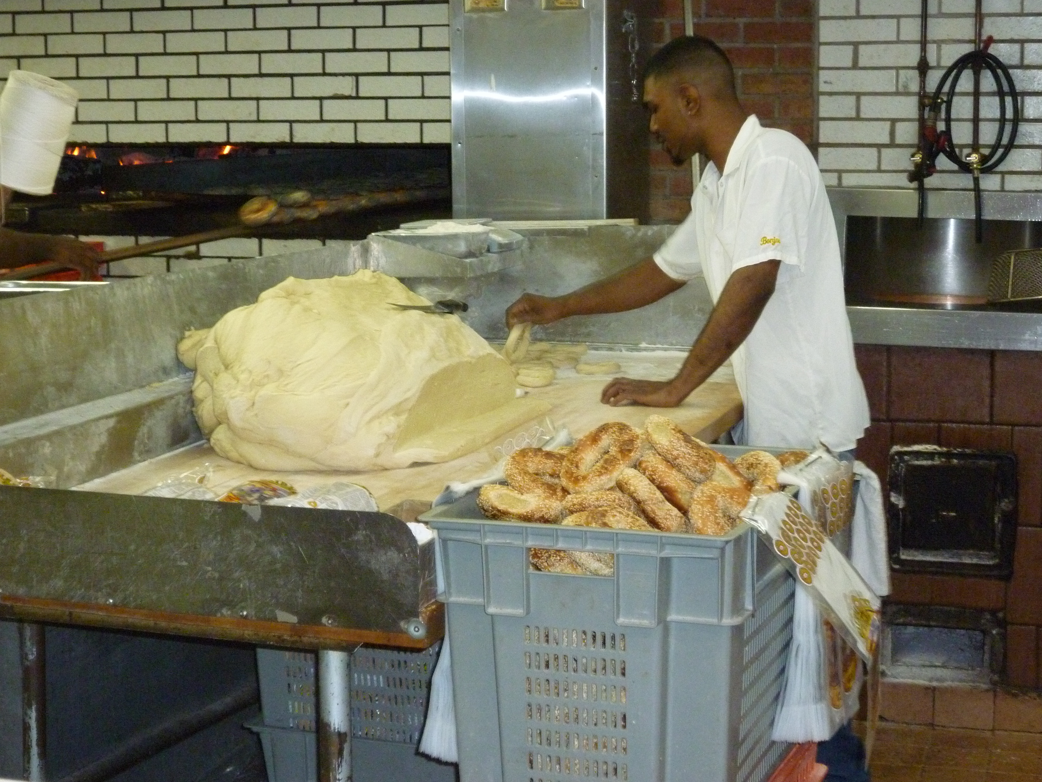 Fairmount Bagel - A huge loaf of bagel paste that is ready to be rolled and prepared.